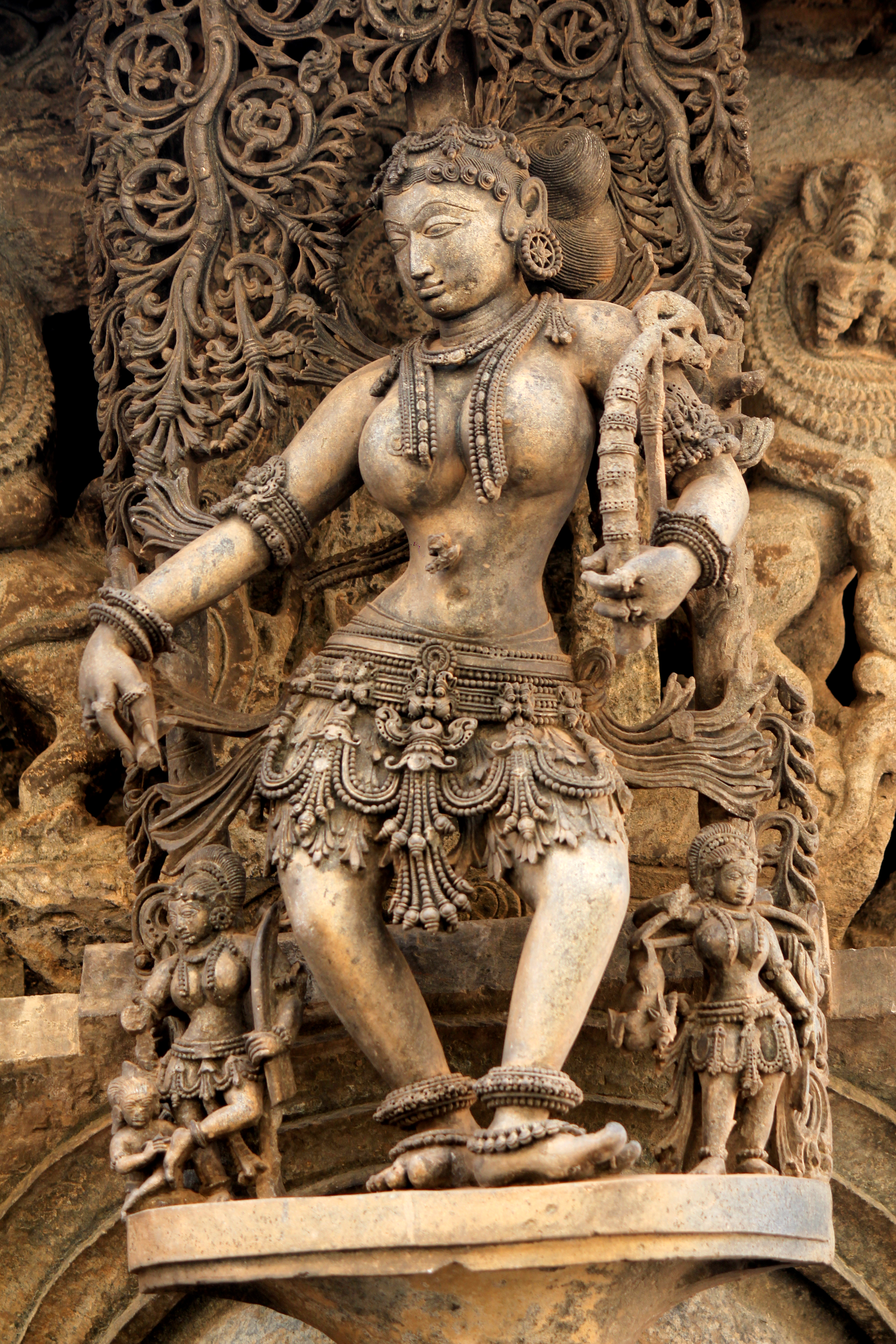 successful hunters a lady returning after hunting her maids are carrying the prey and one maid is removing the thorns at Chennakesava temple belur karnataka